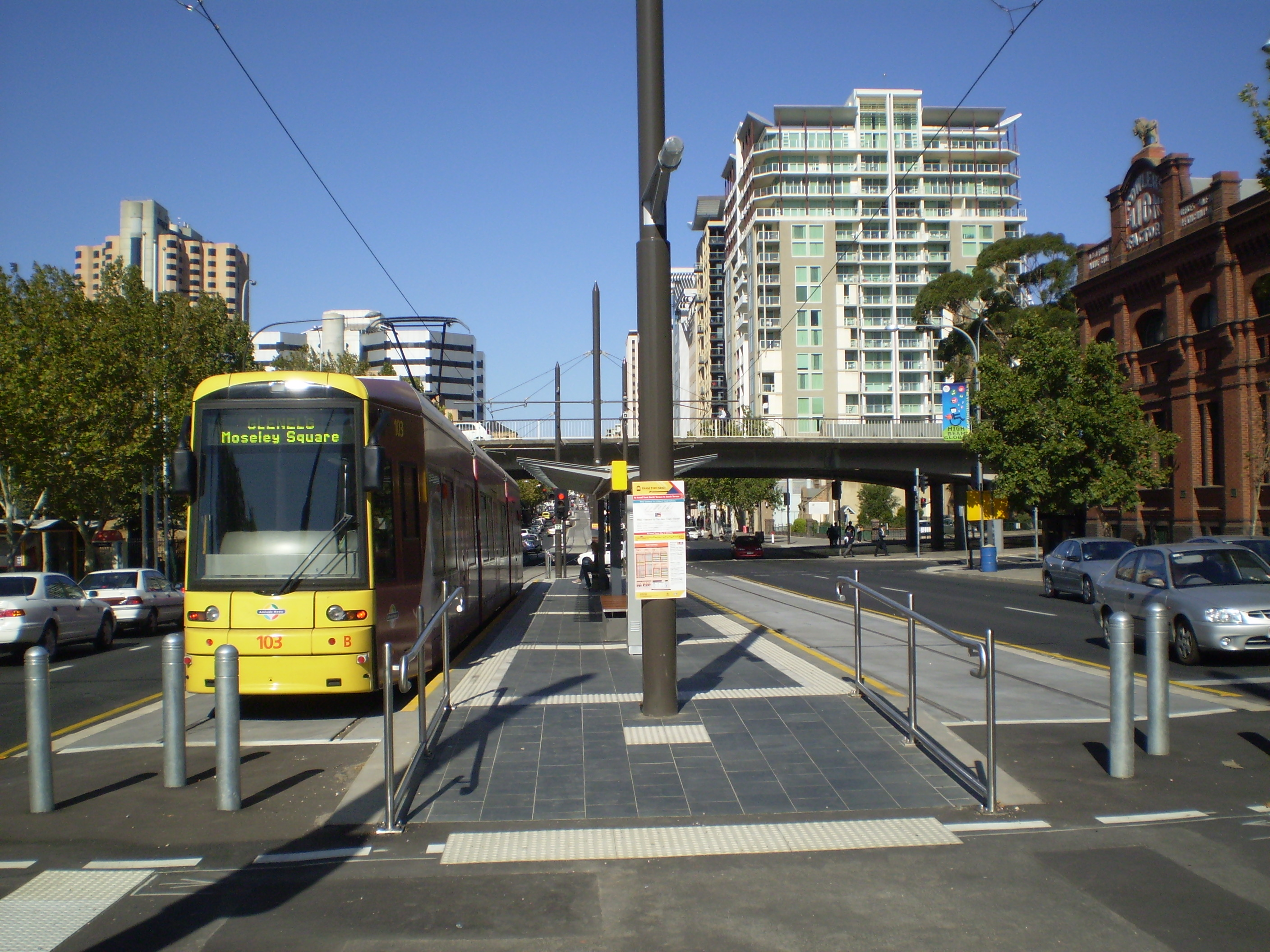 Taken by Norman Hackenberg at City West tram stop, Adelaide on 13/2/2008.